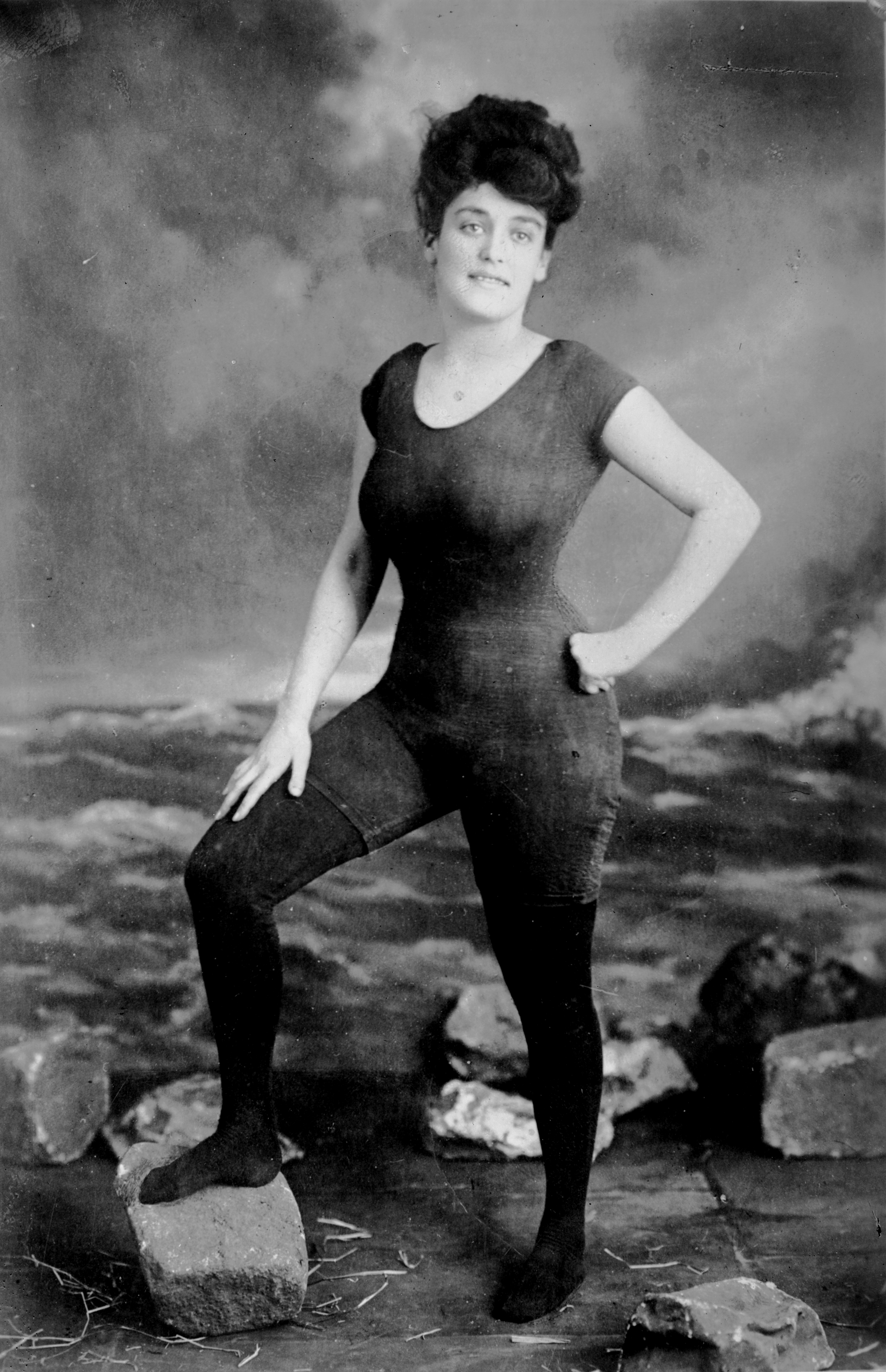 Annette Kellerman (1887-1975), Australian professional swimmer, vaudeville and film star in her famous custom swimsuit (designed to allow for serious athletic swimming, unlike conventional women's swimwear of the period, but considered indecent by some).